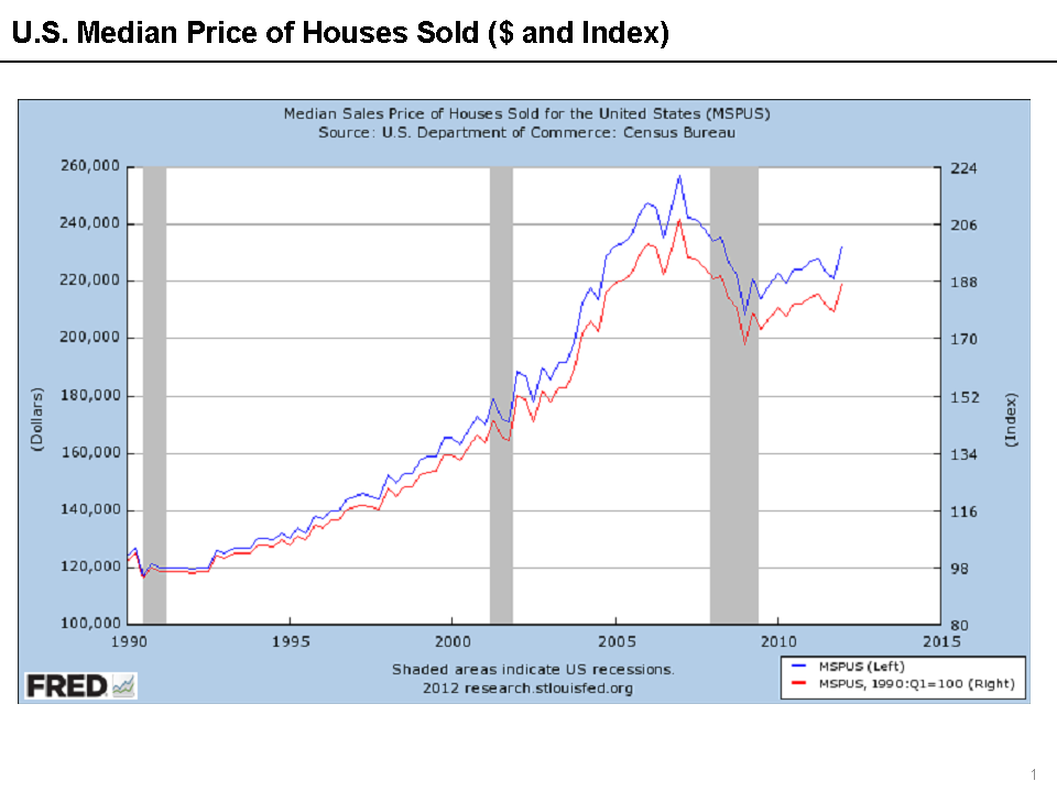 This file shows U.S. median sales prices, from 2000-2012.